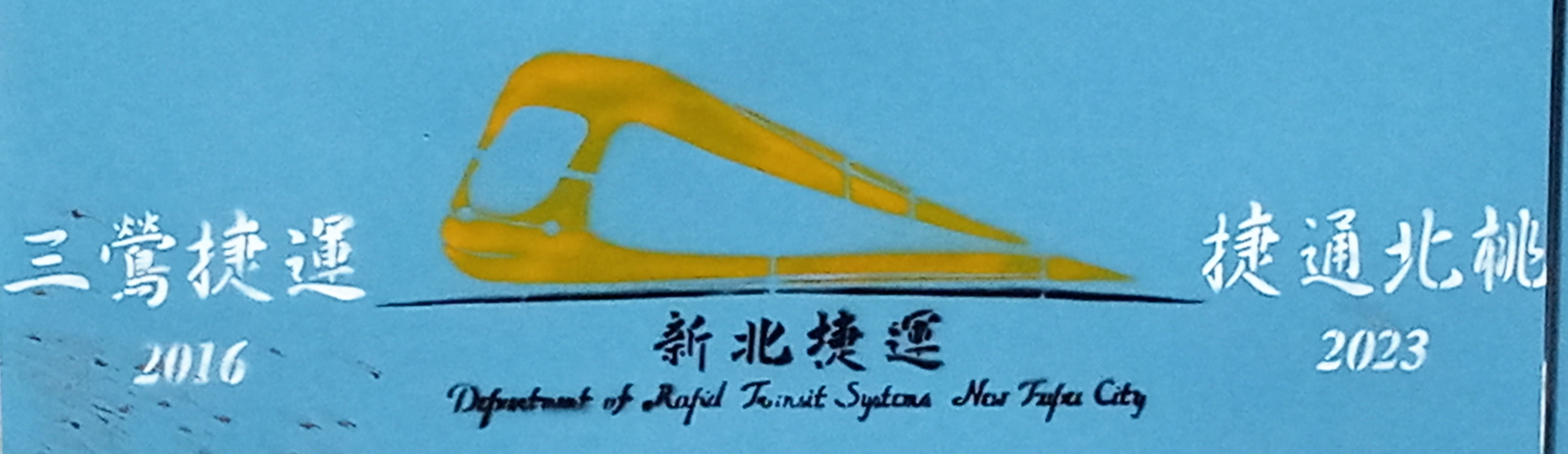 The seal of Department of Rapid Transit Systems, New Taipei City Government on Sanying Line, New Taipei Metro.